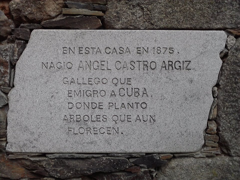 Commemorative plaque at Fidel Castro´s father native house in Láncara, Galicia, Spain .